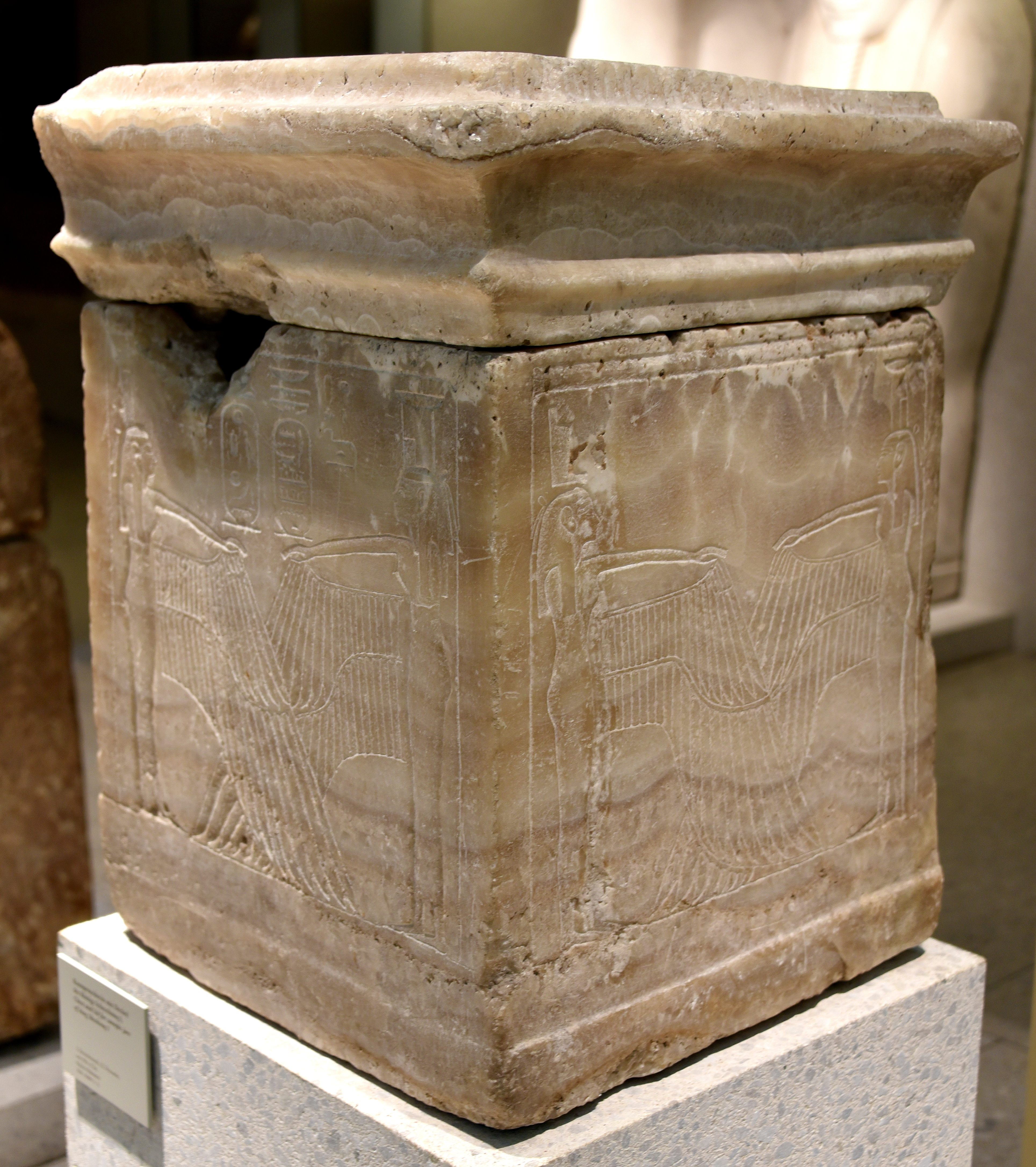 Canopic chest and lid of the Egyptian king Shoshenq I. Third intermediate period, 22nd (Bubastite Dynasty) Dynasty, 10th century BCE. Precise provenance unknown. Calcite-alabaster. The Neues Museum, Germany.